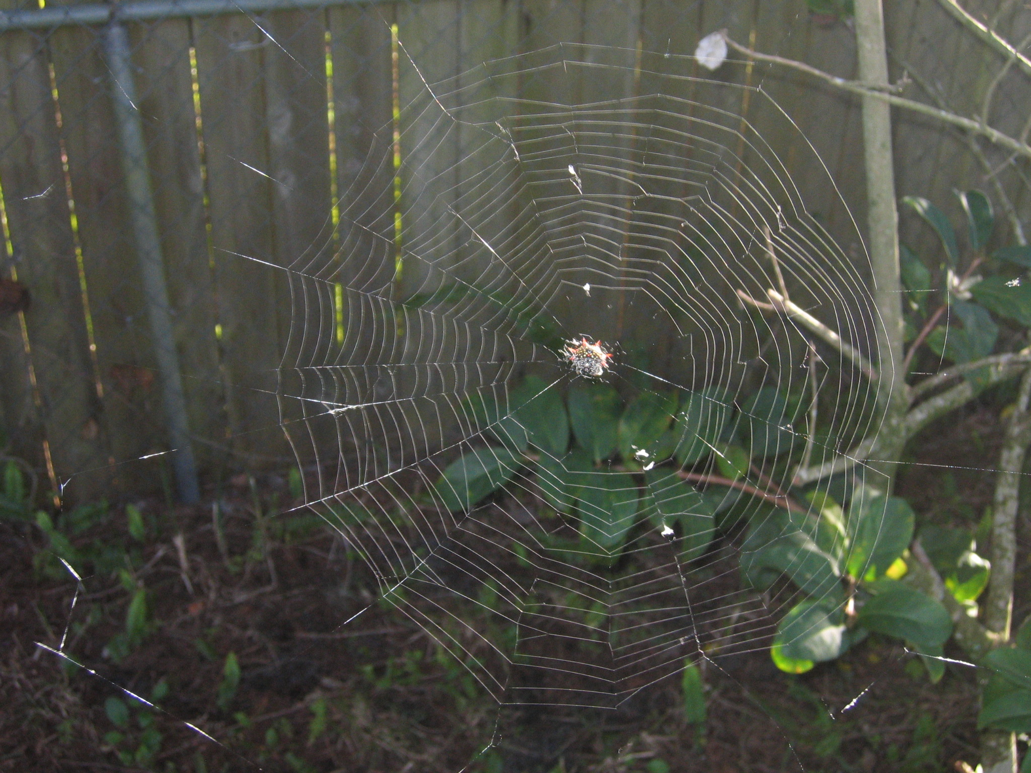 Spiny orb weaver (Gasteracantha cancriformis) on its web